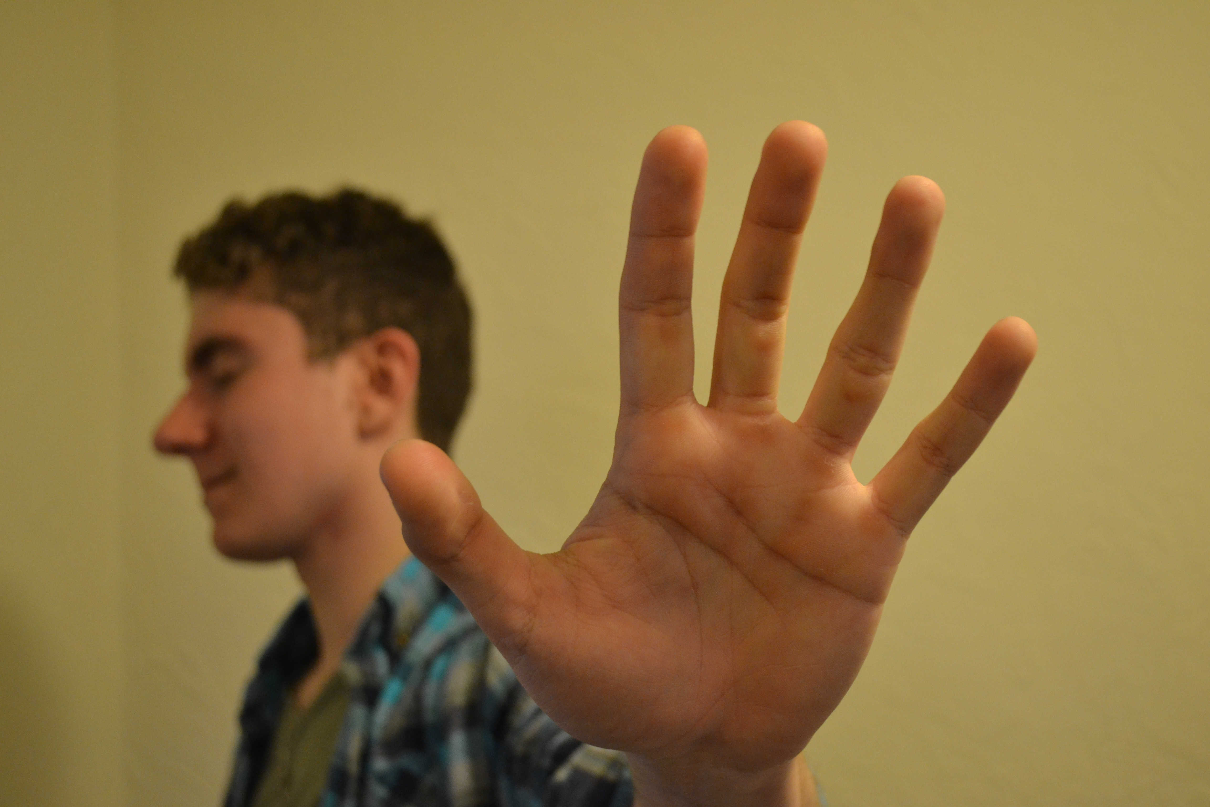 Someone displaying the "talk to the hand gesture" to the camera.